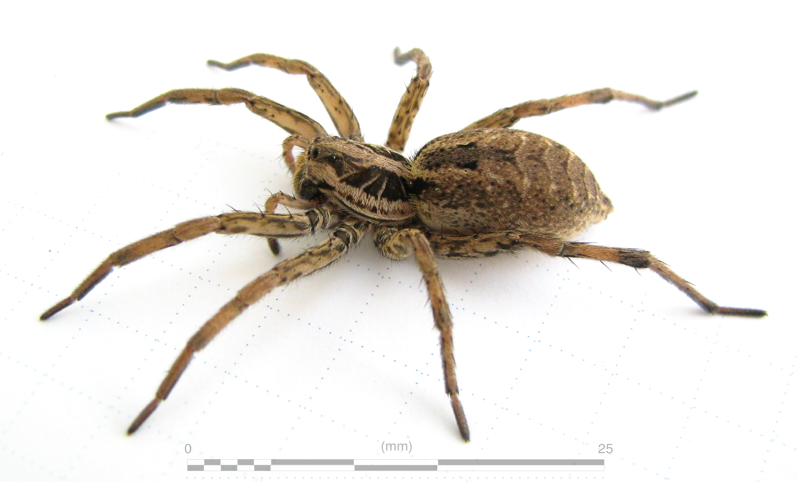 Specimen of a Hogna radiata, took in the South West of France. The Hogna radiata is present in South Europa (from the middle of France), north Africa and Central Asia (N. I. Platnick). This species is wandering, hunting smaller insects less than 20% of its own size. Found on grass, parks, and forests. Sources: n°1 n°2 Macro encyclo tools This macro picture was produce using one or more of the following specific encyclopedic tools: the Image:Macro A4.svg file, which when printed upon a A4 page, which provide: 1. a pre-cleaned up background ; 2. a scale all across the page. To use it: print it on an A4 page ; put your subject on your printed page ; shoot ; some tutorials for image improvement, some basic tutorials and free software to improve your photograph ; the Image:Macro scales.svg file: Following image improvements such as background clean up, add the scale ; the biologic naming conventions, to ease later download and scientific storage. And, of course, patience and time.